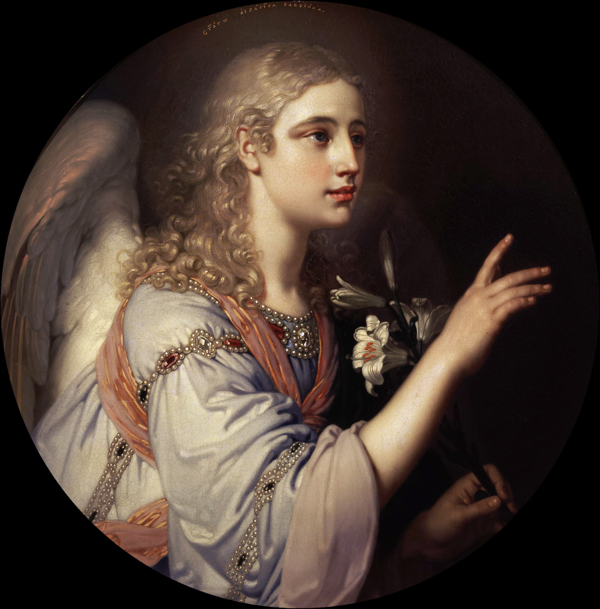 Icon from the royal gates of the central iconostasis of the Kazan Cathedral in St.-Petersburgh